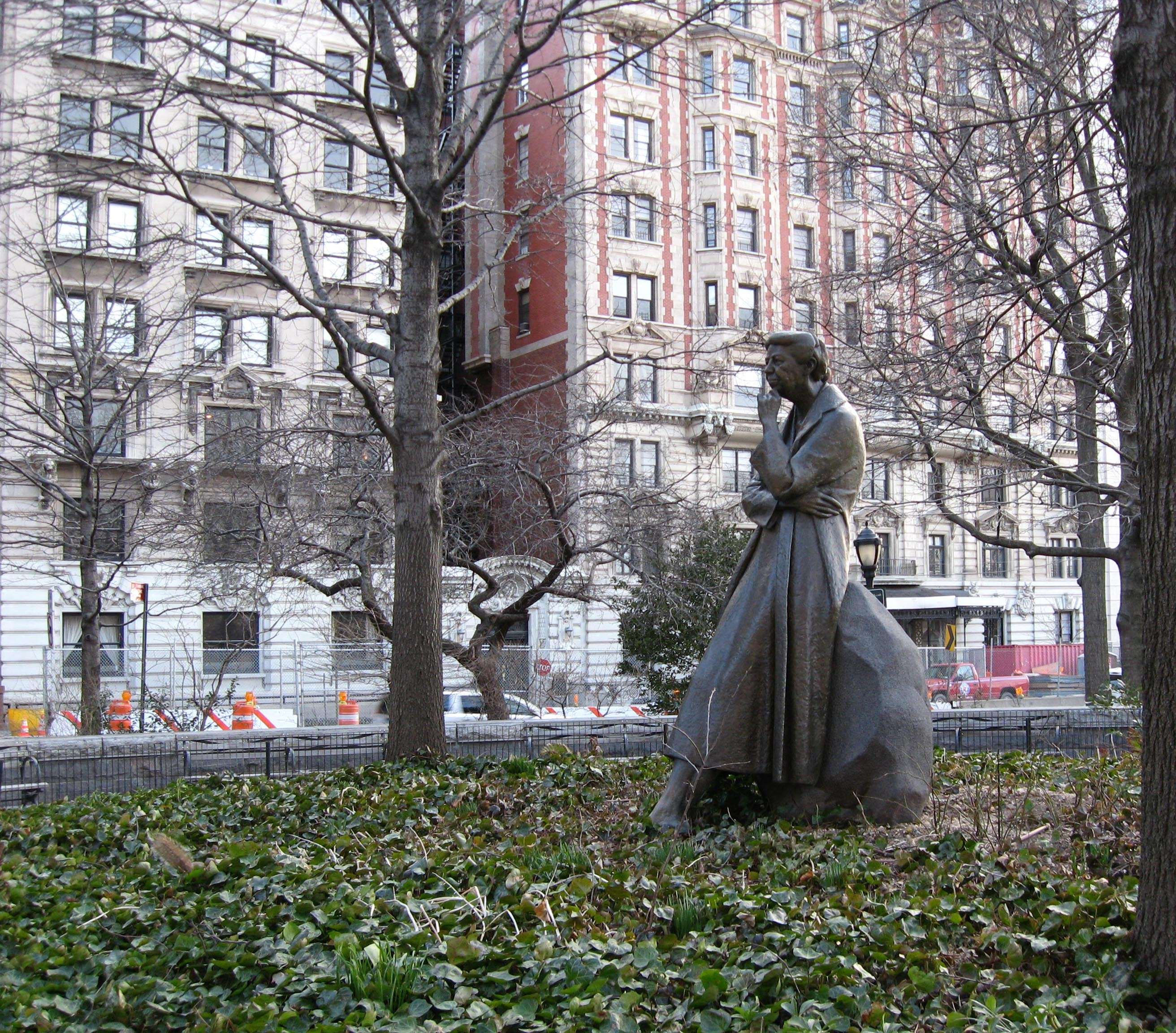 Eleanor Roosevelt memorial at Riverside Drive and West 72nd Street, Manhattan. I took this picture looking west on an early spring late afternoon.